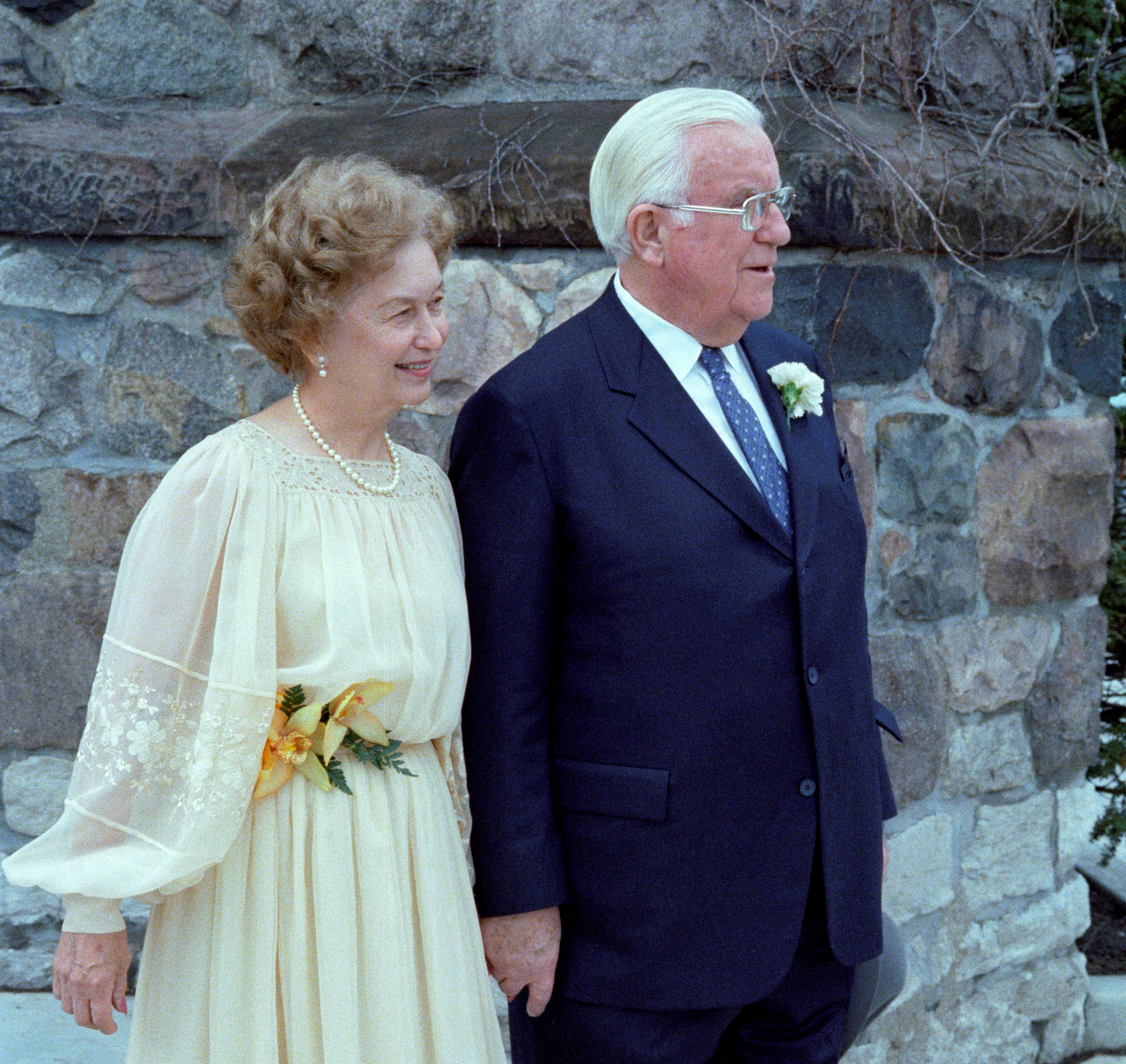 Judge Thomas P. Thornton and Rose Garland Thornton at their wedding, St. Paul Catholic Church, Grosse Pointe Farms, Michigan in April 1980.